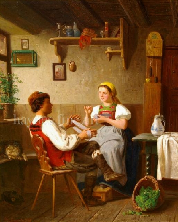 Ein glückliches Pärchen